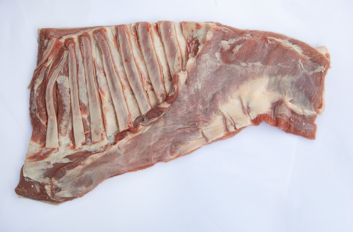 Brisket of lamb